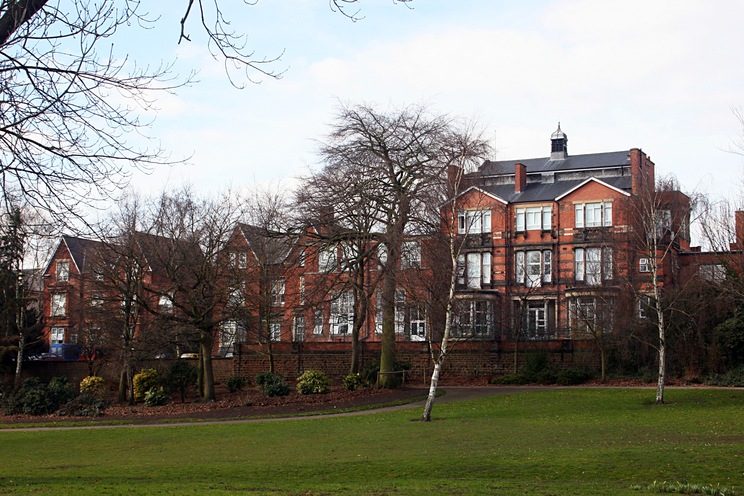 A photograph of Nottingham Girls' High School taken from the Arboretum. Clarence Lodge and Radnor House are in view.